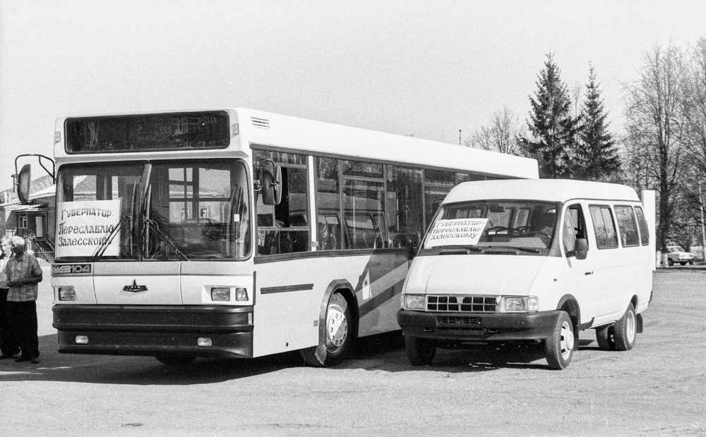 MAZ-104 bus and «GAZelle» minibus parked at Narodnaya square. Anatoliy Ivanovich Lisizyn, Governor of Yaroslavl Region, has presented them to Pereslavl. The poster on the windshield says: «Governor — to Pereslavl-Zalessky».